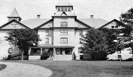 Photograph of the Mount Elgin Indian Residential School in Muncey Ontario.